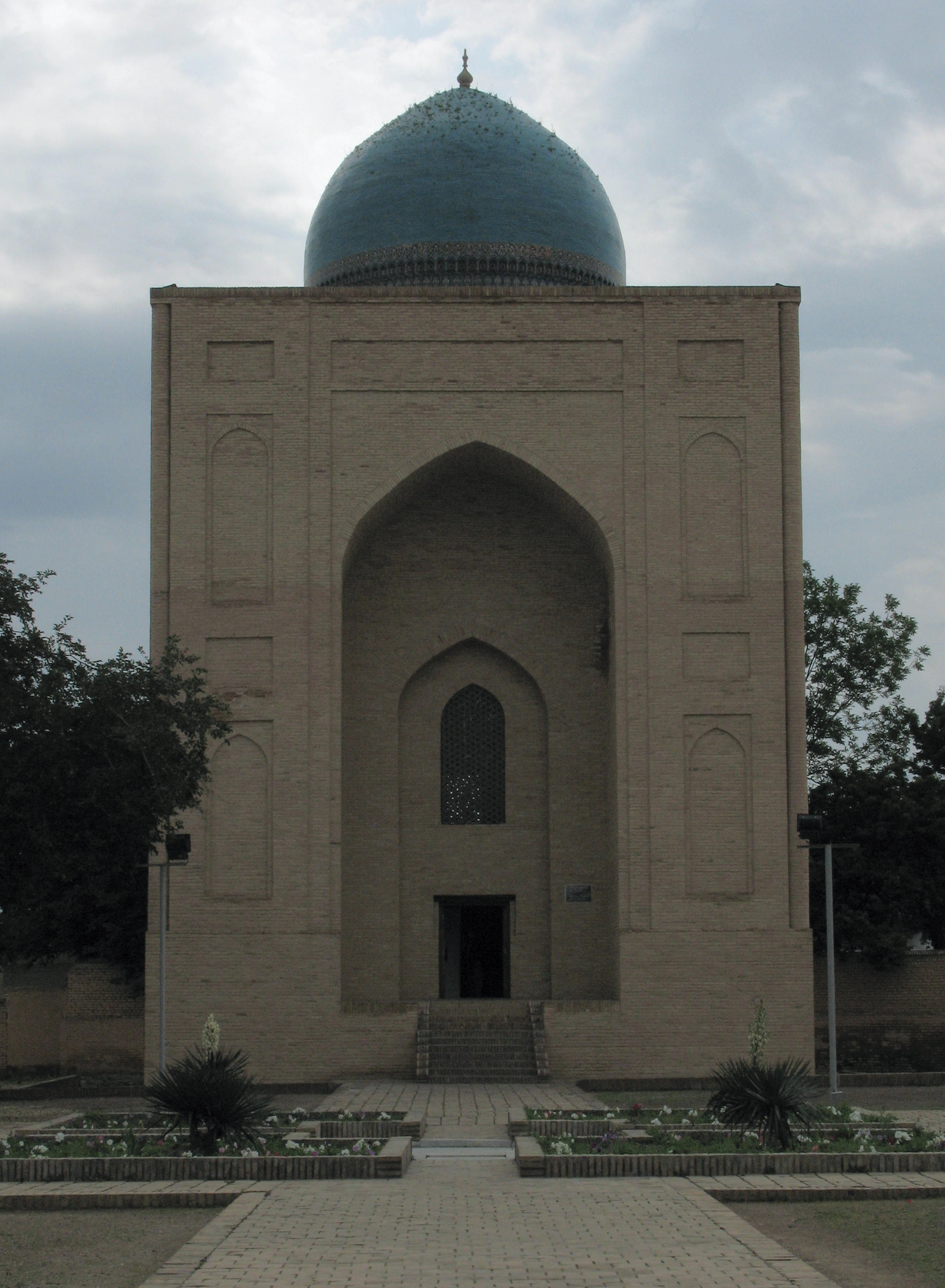 Bibi-Khanym Mausoleum in Samarkand, Uzbekistan